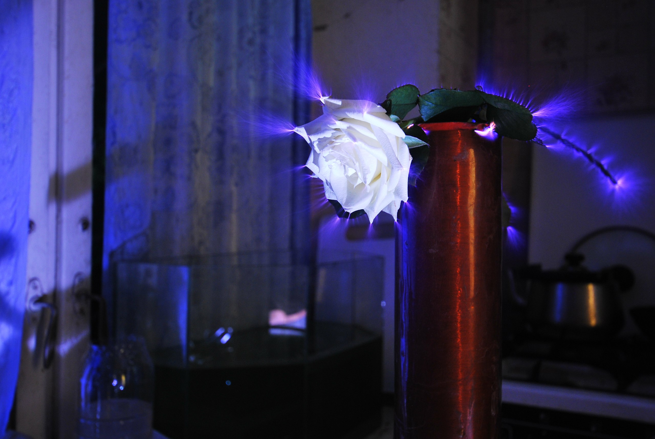 Kirlian Effect around Roses